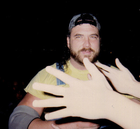 Henry Godwinn at a WWF event in 1995 (1996?)